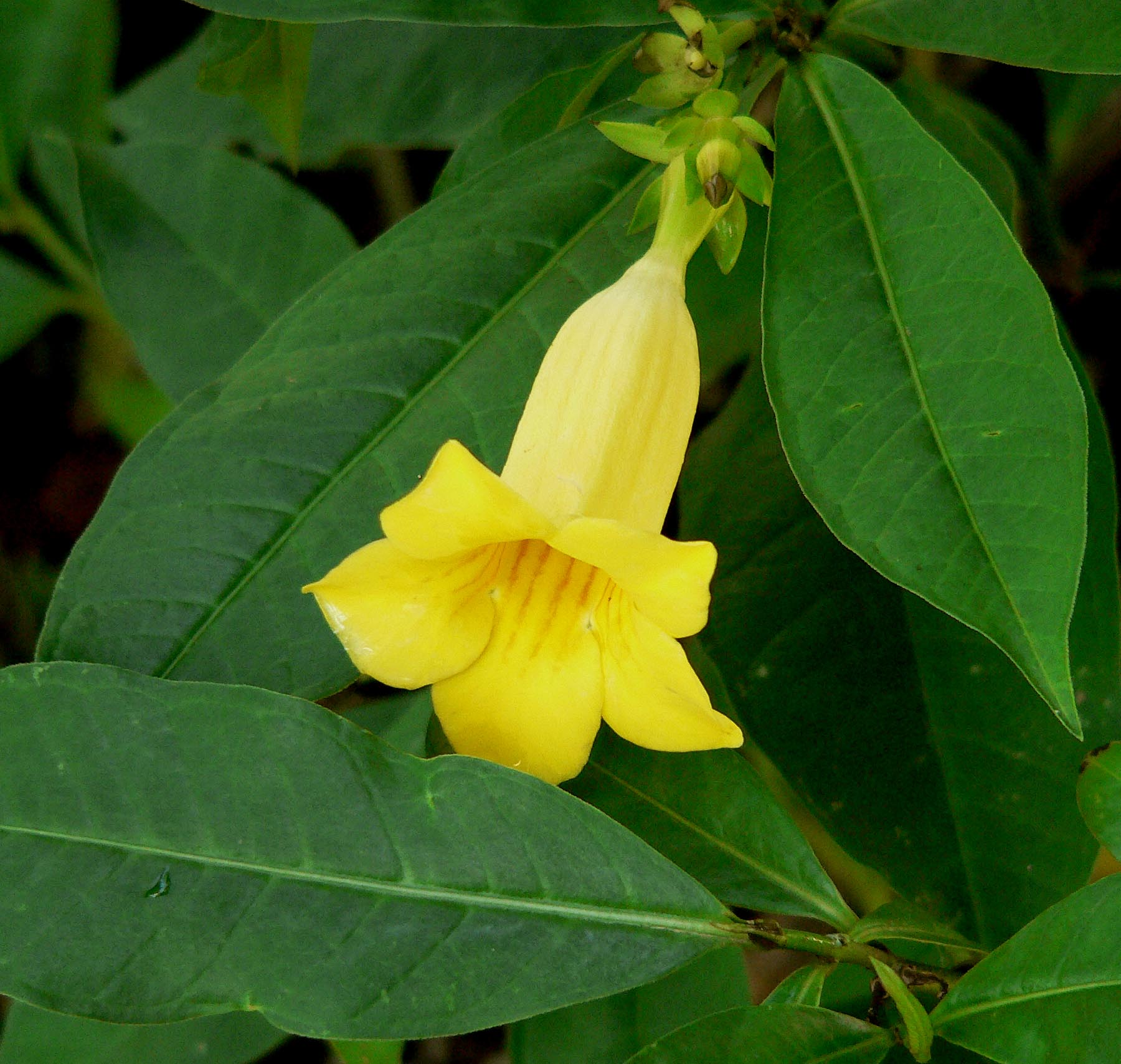 Photo of Allamanda schottii at Balboa Park